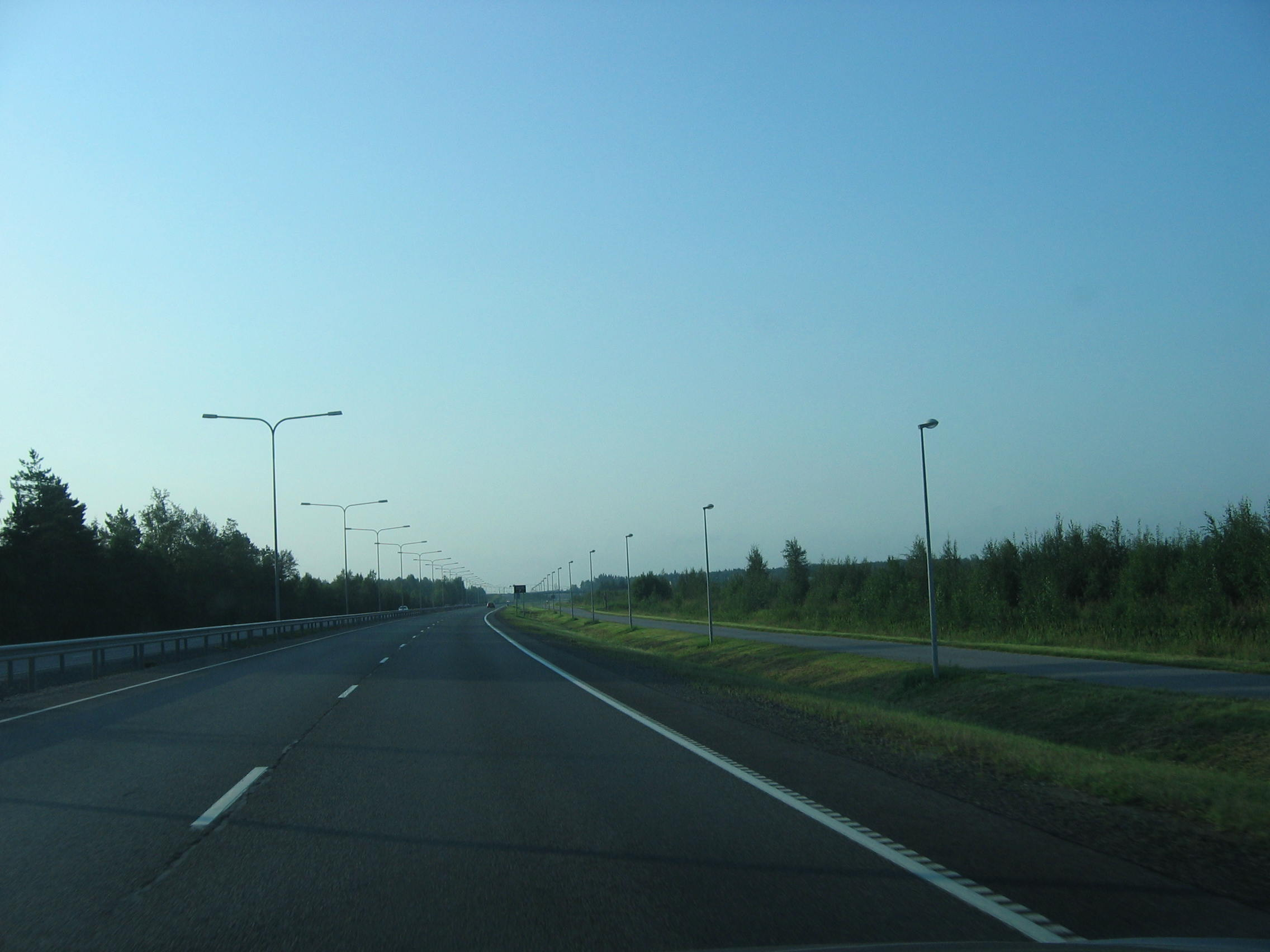 Main road 2 in the Ulvila-Nakkila region in Finland, seen towards South-East